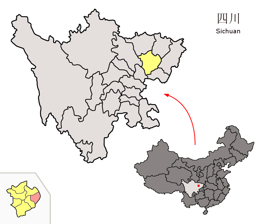 Location of Yingshan County (pink) and Nanchong Prefecture (yellow) within Sichuan province of China Map drawn in october 2007 using various sources, mainly : Sichuan province administrative regions GIS data: 1:1M, County level, 1990 Sichuan Counties map from